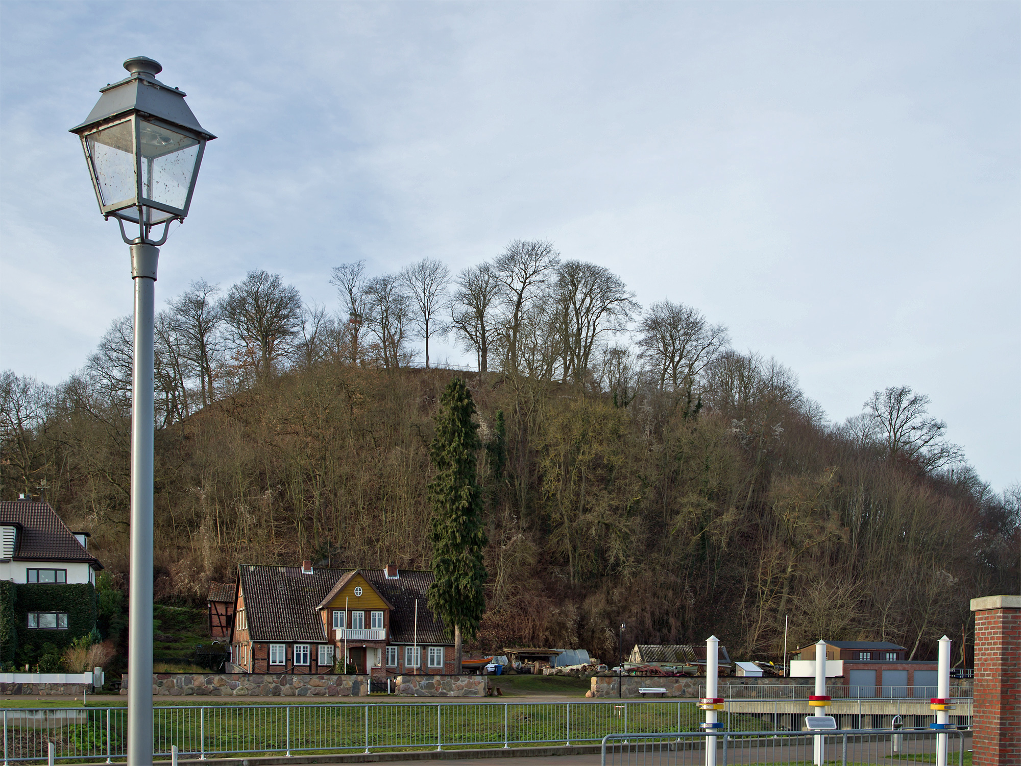 View of the "Weinberg" (vineyard) in Hitzacker (Elbe), seen from the harbor area on the northern tip of the town. (district Lüchow-Dannenberg, northern Germany).